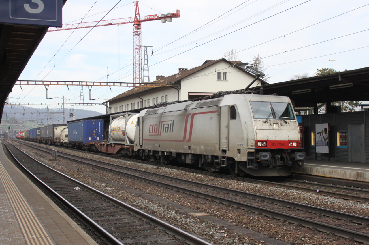 Crossrail 185 579-0 passing though Liestal train station ahead of a southbound freight train.